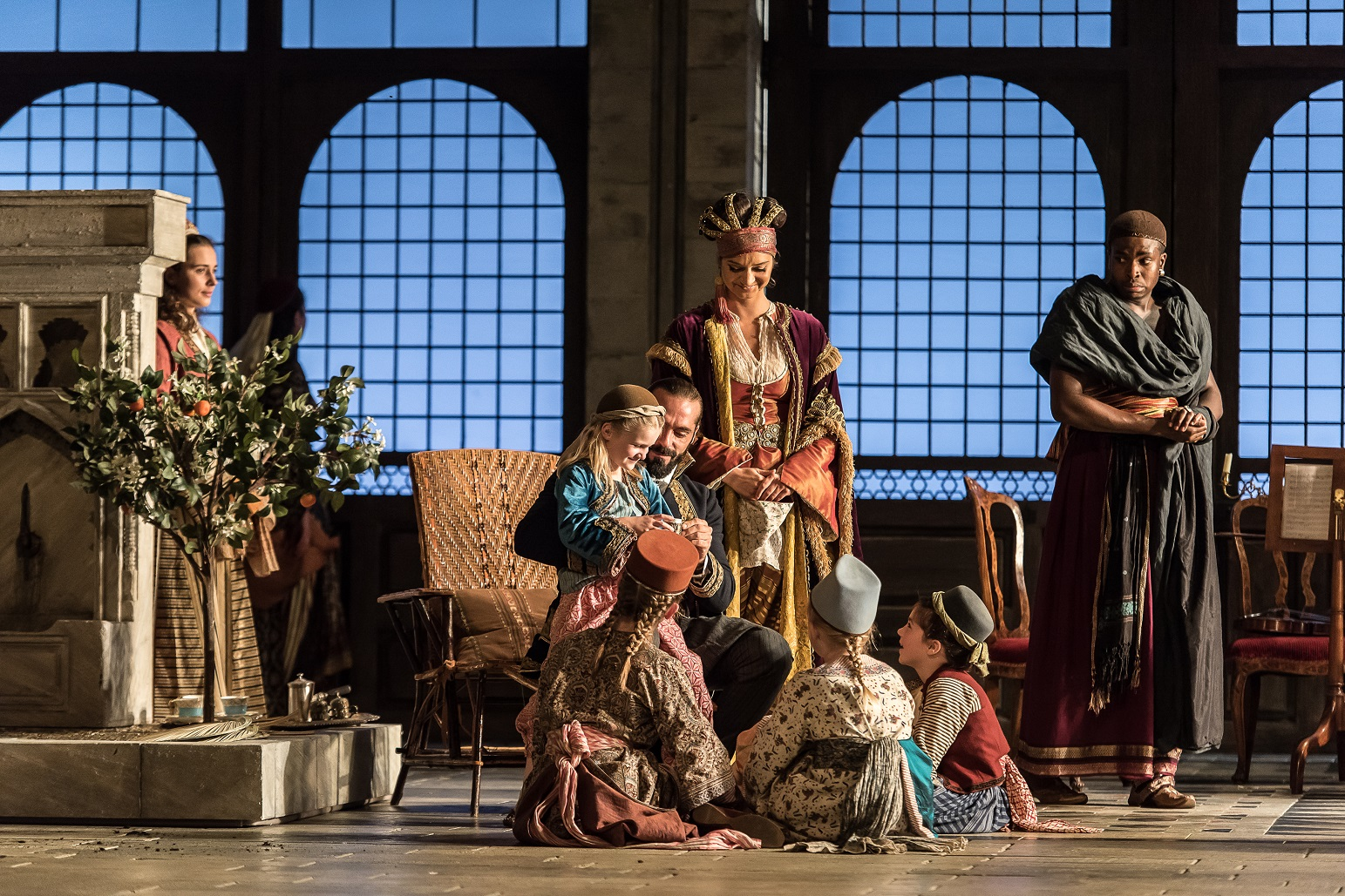 Franck as the lead role, Pasha Selim in Mozart’s Entführung aus dem Serail from the Glyndebourne Opera Festival 2015